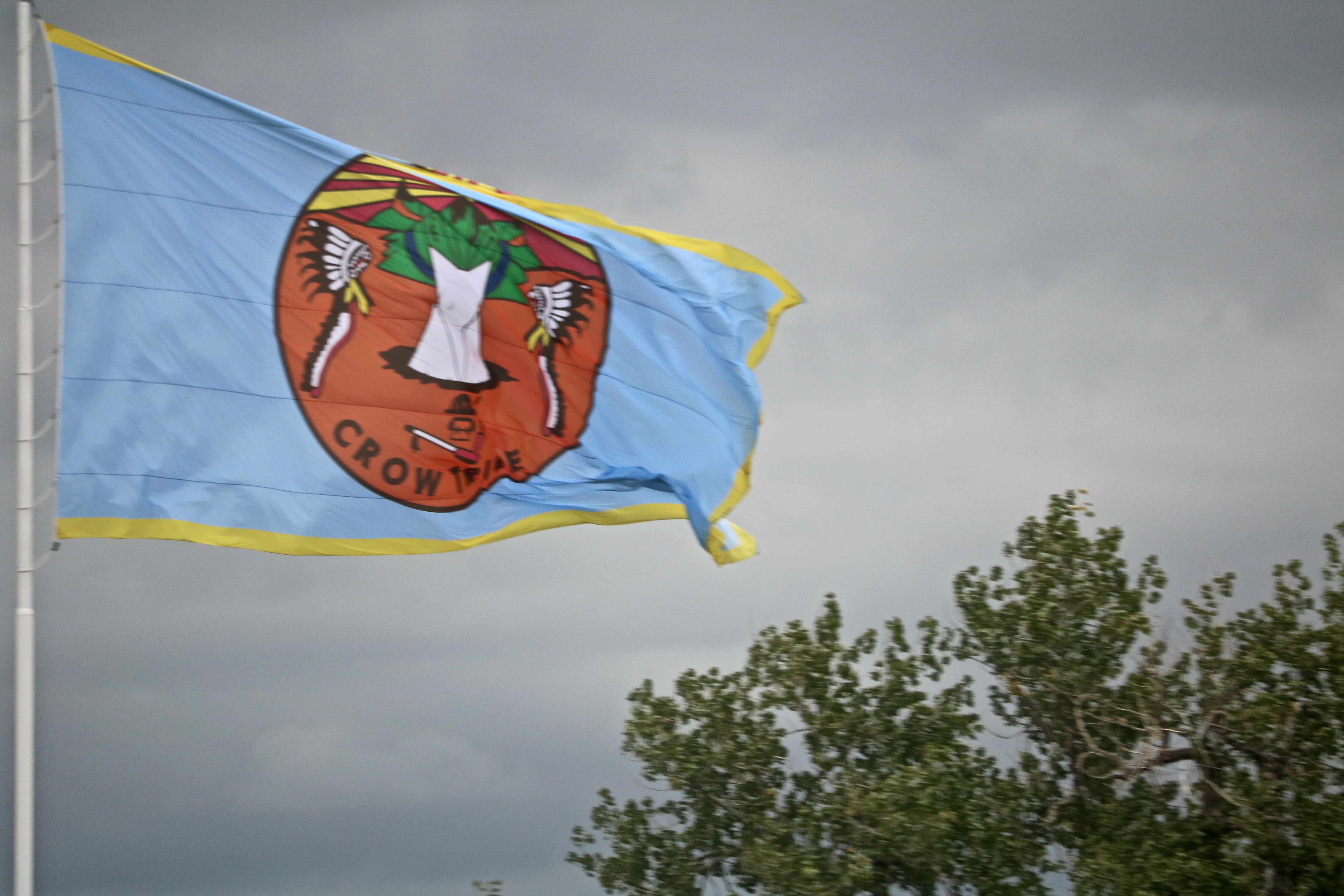 Images taken from Interstate 90 on the Crow Indian Reservation, Big Horn County, Montana, at Crow Agency, Montana